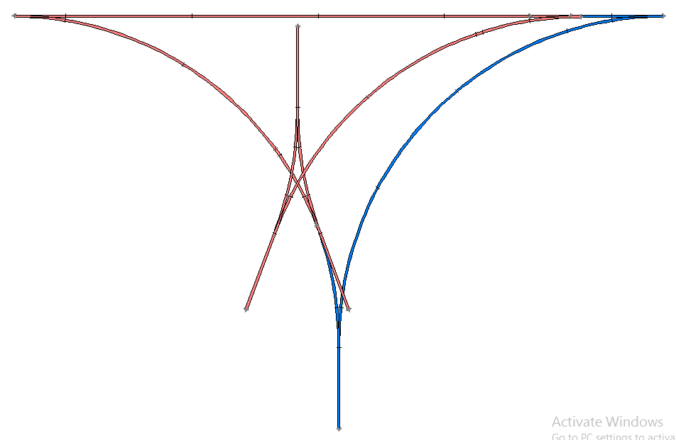 Size comparsion of reversing triangle and reversing star track layouts. Curve radius is 200 m. (made with SCARM software)